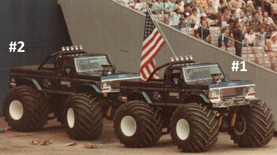 Bigfoot I and II. Date of pic unknown.